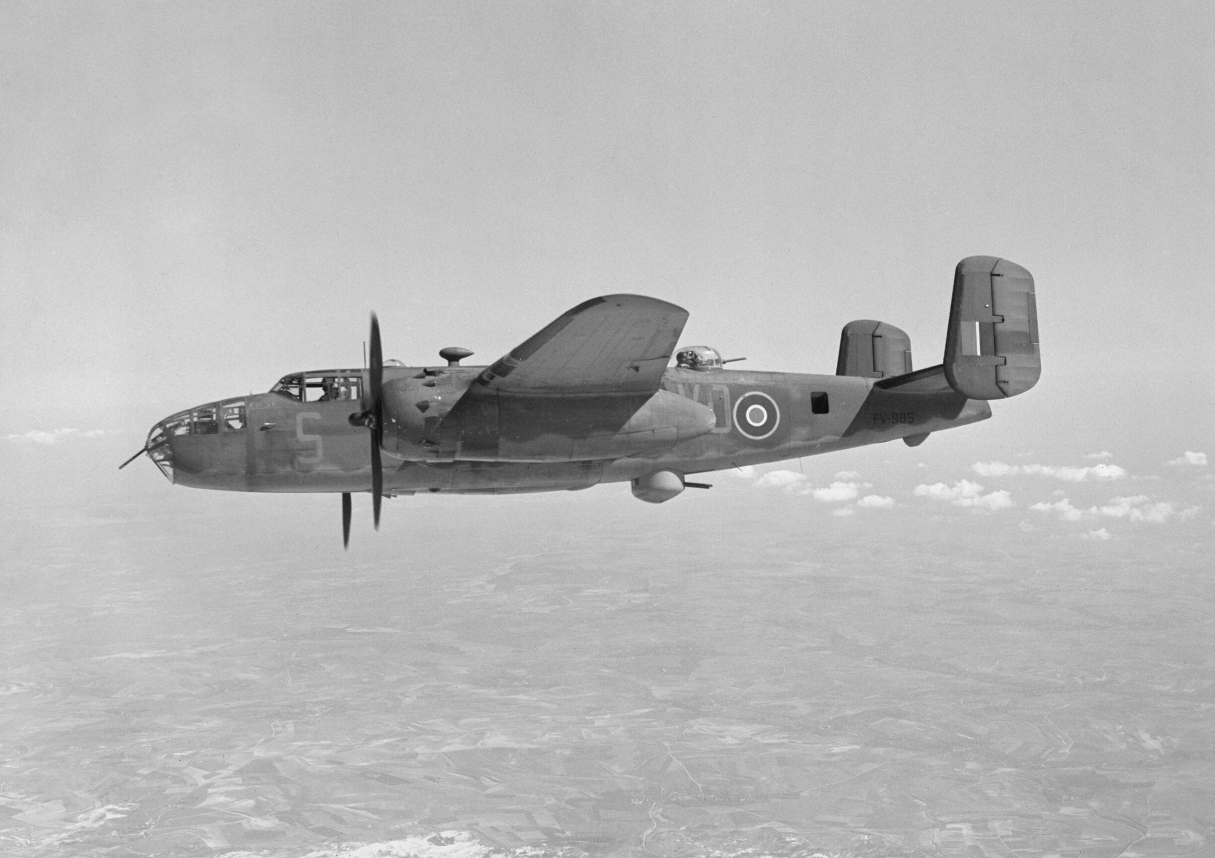 A Royal Air Force North American Mitchell Mark II (FV985 "VO-S"), of No. 98 Squadron RAF based at Dunsfold, Surrey (UK), approaches the English Channel south of Etaples while returning from a "Noball" operation over northern France. Note the deployed ventral turret. "Noball" missions were missions against German missile sites.